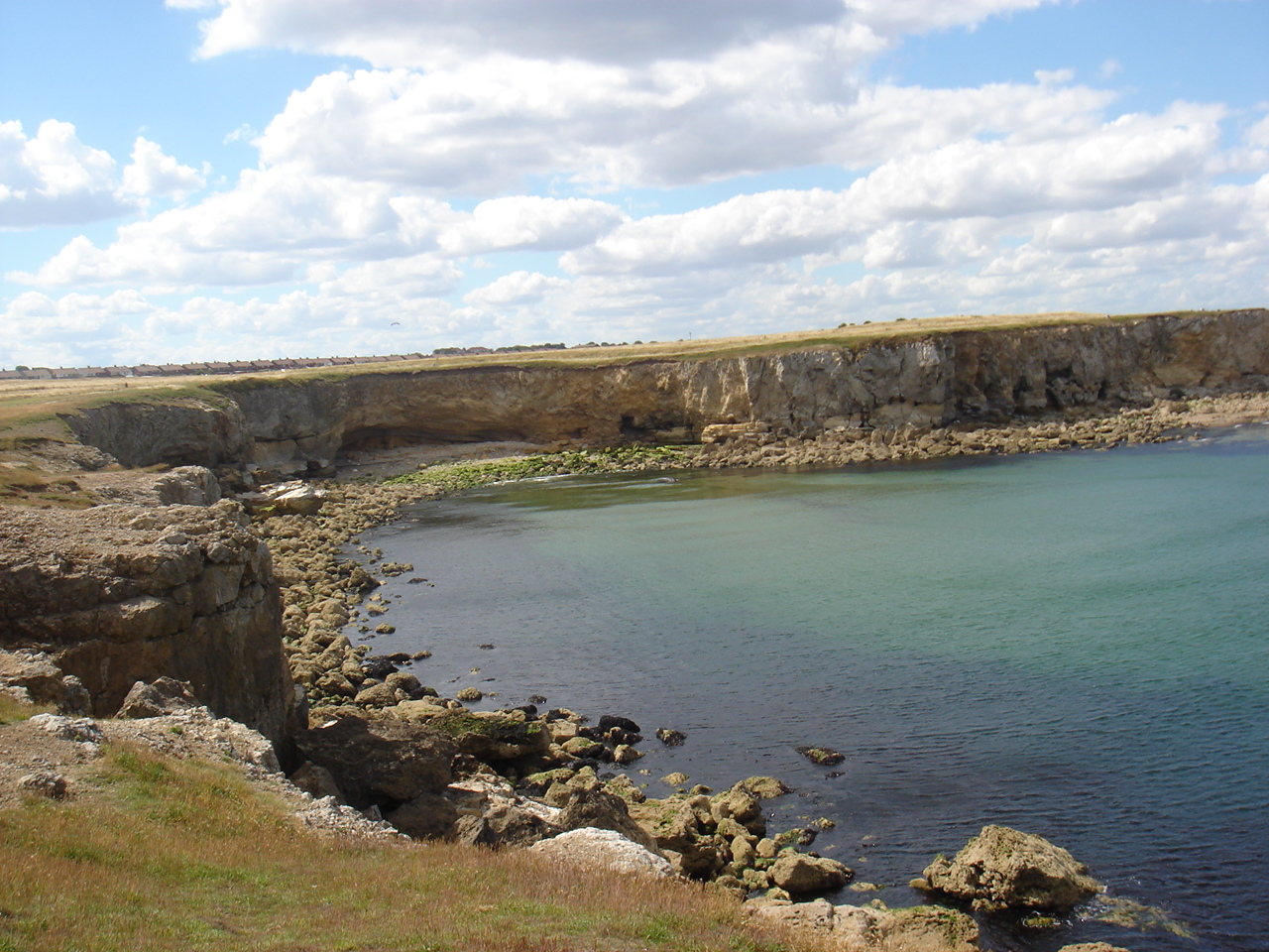 South Shields coastline by Paul King